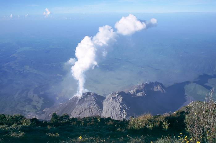 Santiaguito volcano, seen from the summit of Santamaria. From .